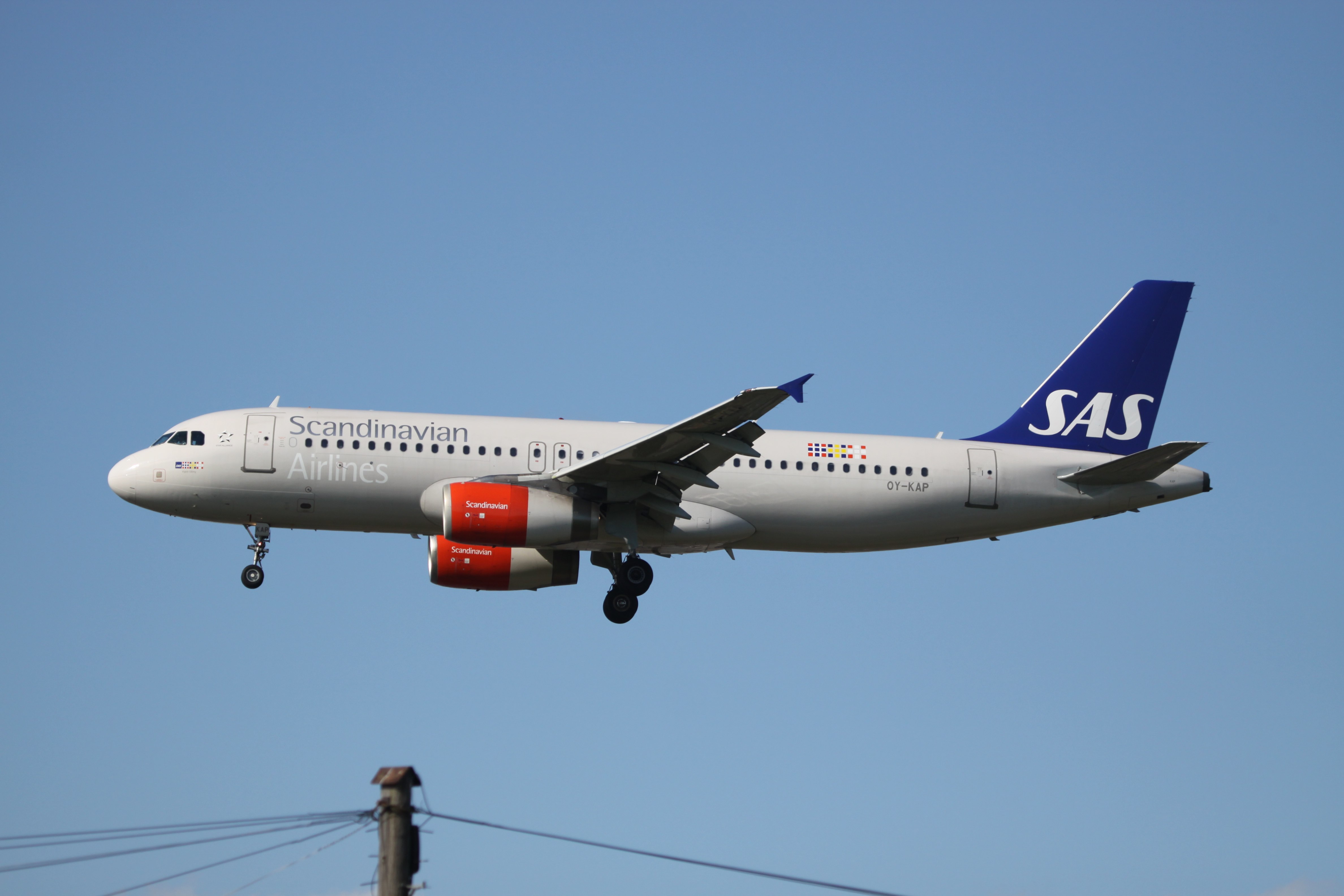 At London Heathrow